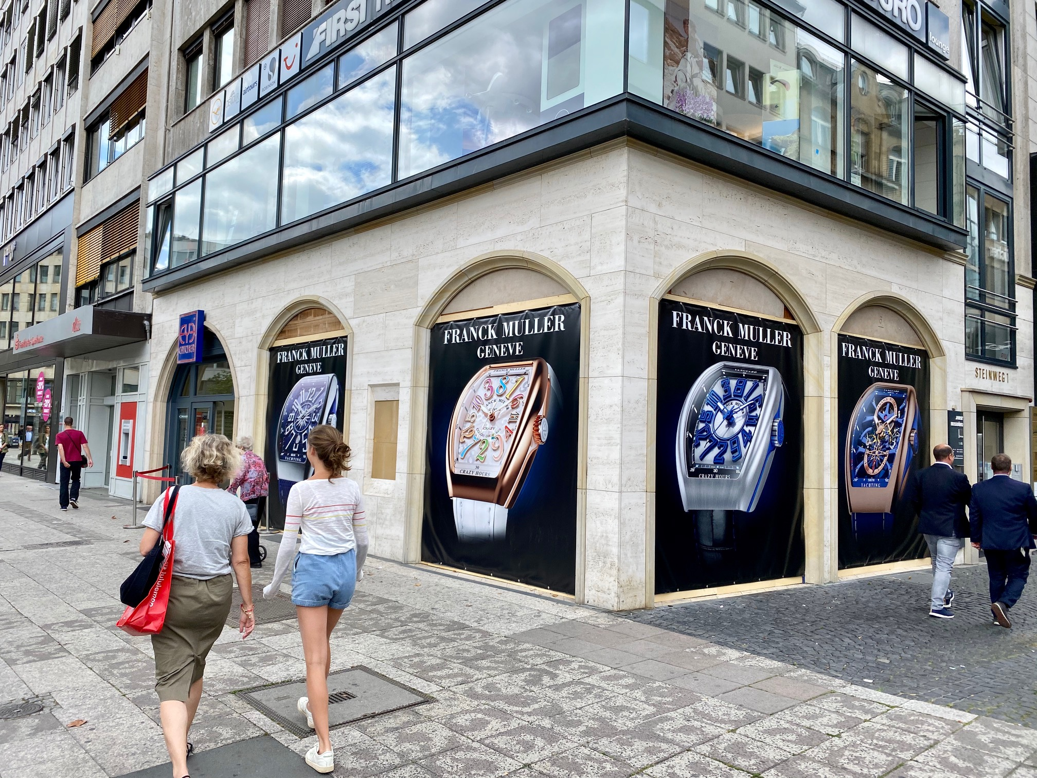 Franck Muller Boutique in Frankfurt, Germany. To be opened in Fall 2020.